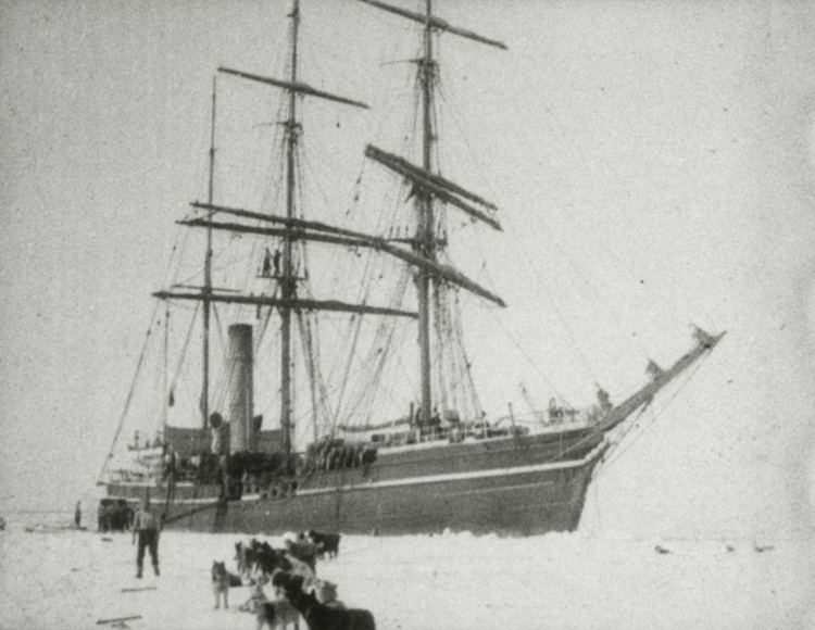 Description: 'Photograph (Cinematograph Film) entitled 'With Captain Scott [Royal Navy] to the South Pole (British Antarctic Expedition)'. Steam Yacht 'Terra Nova' with dogs and men standing on ice near by', by Herbert Ponting (1870-1935). Date: c.1911 Our Catalogue Reference: COPY 1/562/115 This image shows a single frame from the very short (3-4 frame) sections of nitrate film stock accessioned at The National Archives from Herbert Ponting's footage of the Antarctic. For preservation reasons copies were made of of the original nitrate negatives and these were used to produce modern black and white Kodak prints of the clips which we have scanned for the web. The quality of the resultant images is variable. Feel free to share it within the spirit of the Commons. For high quality reproductions of any item from our collection please contact our image library .